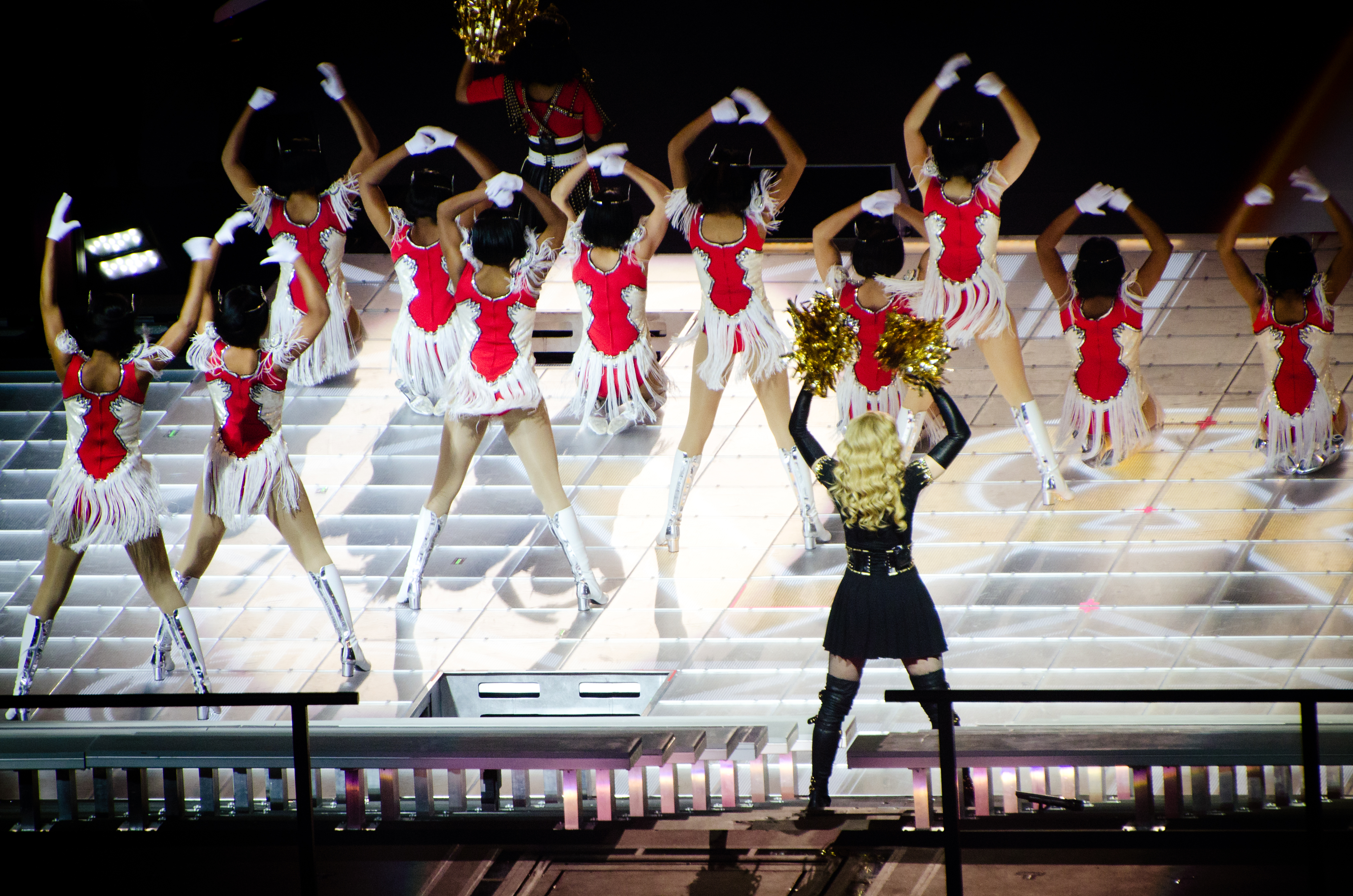 Madonna in Super Bowl, GMAL